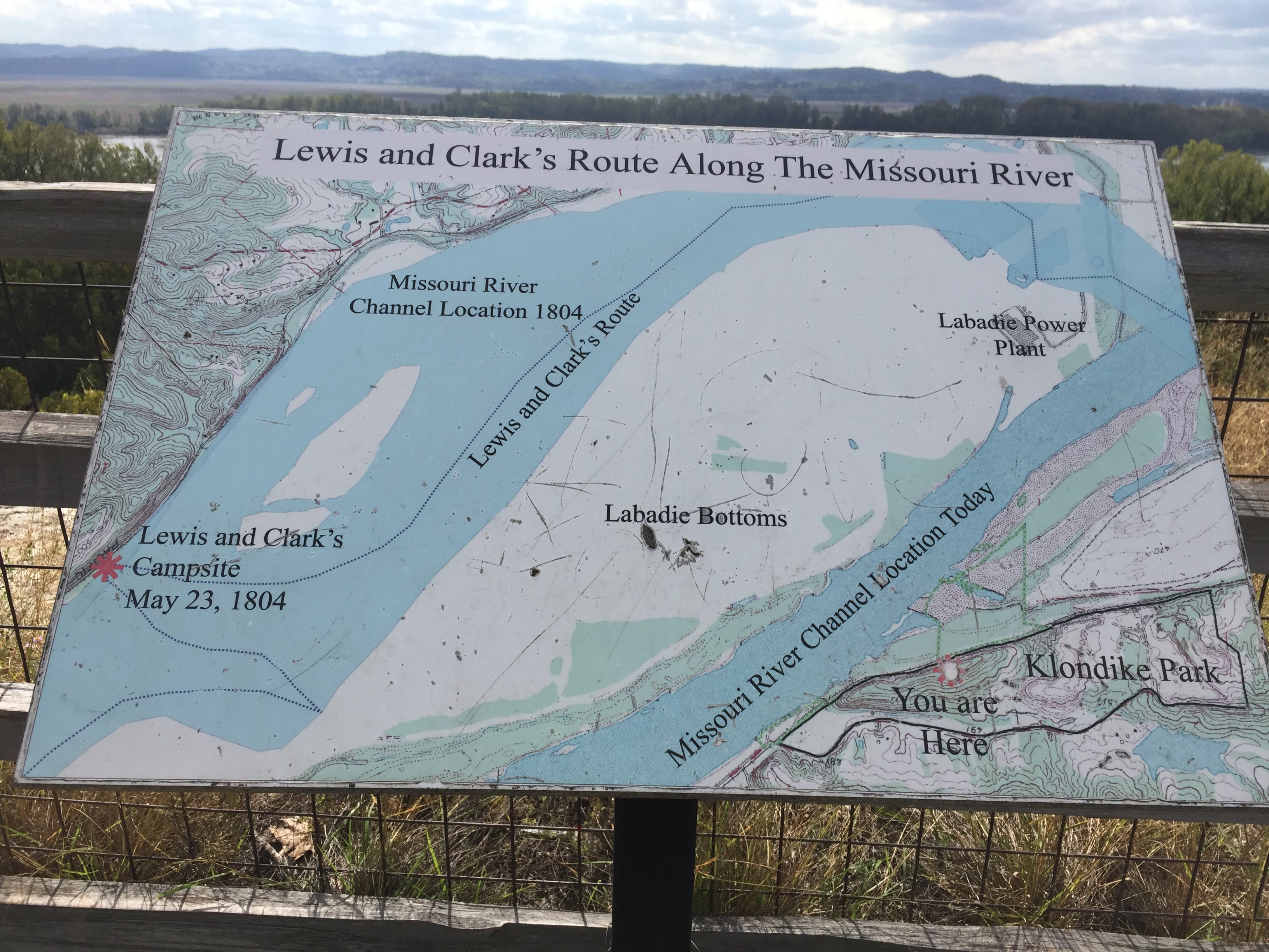 Sign depicting the Lewis and Clark route, near Klondike Park, St. Charles, MO